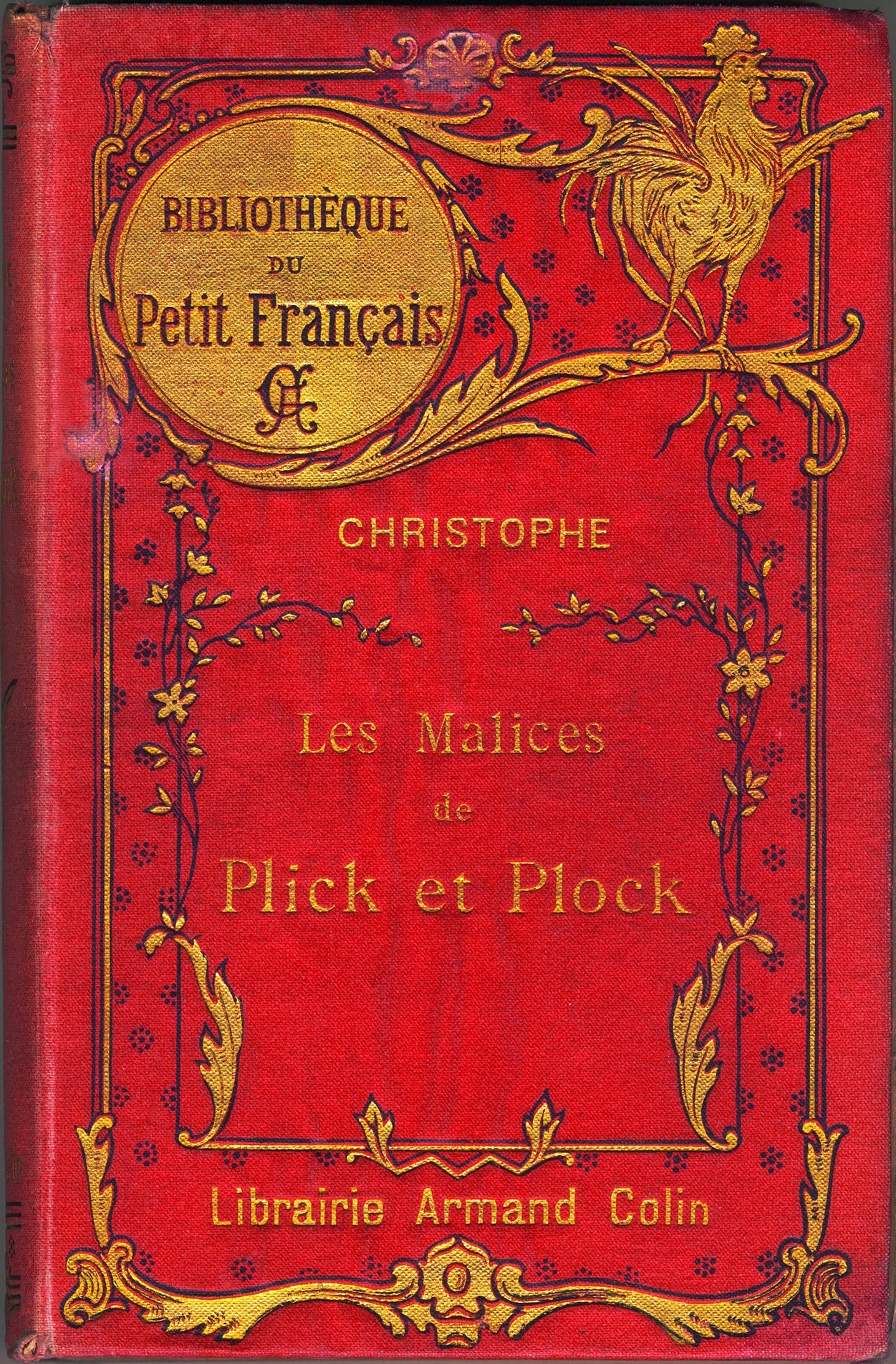 Cover of the book Les Malices de Plick et Plock by Christophe (Marie-Louis-Georges Colomb), published in Paris in 1904